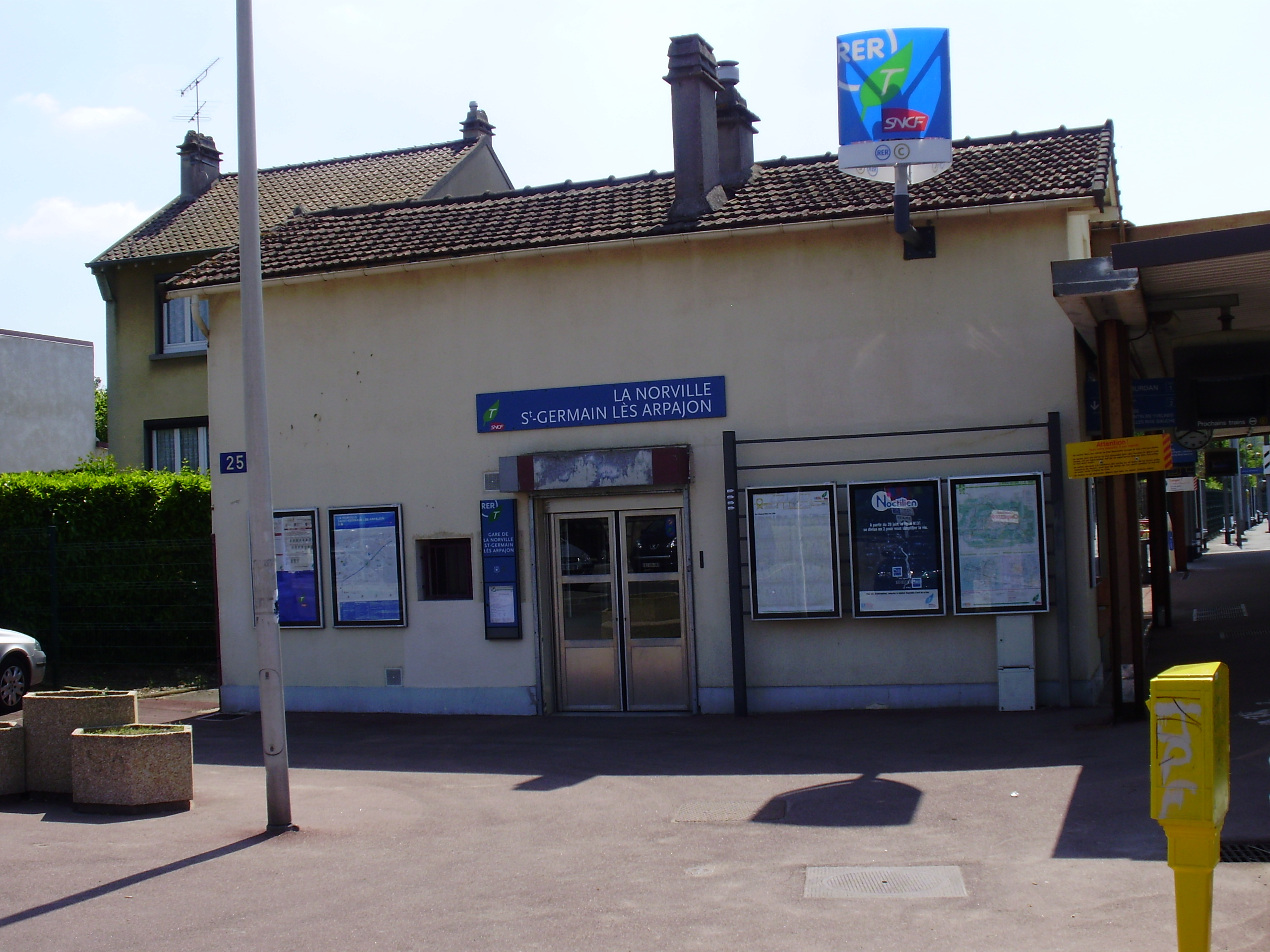 La Norville - Saint-Germain-lès-Arpajon station, in La Norville, Essonne, France